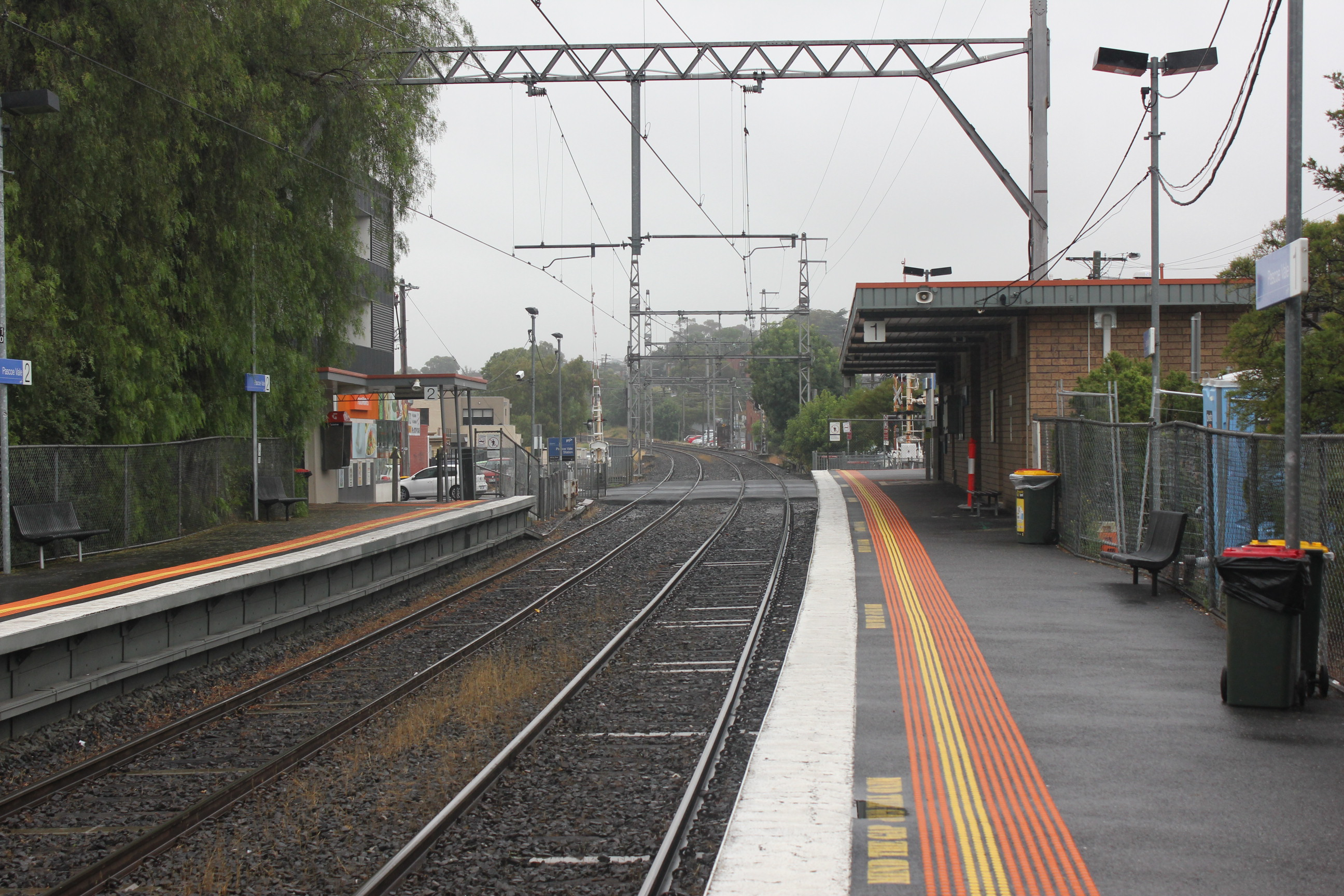 Pascoe Vale railway station, looking towards Craigieburn, January 2015